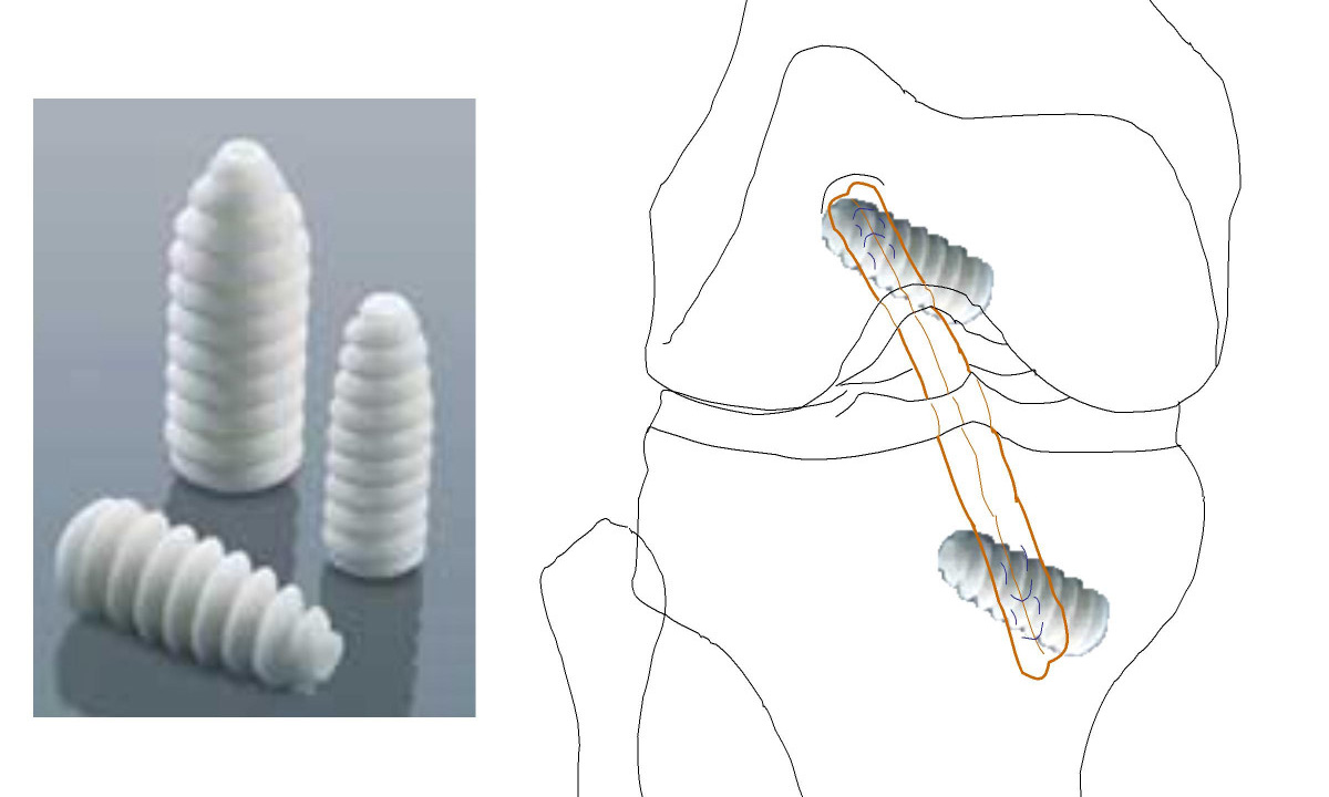 Appearance of the BioCryl® screws (left, courtesy of DePuy Mitek), and their positioning (right).